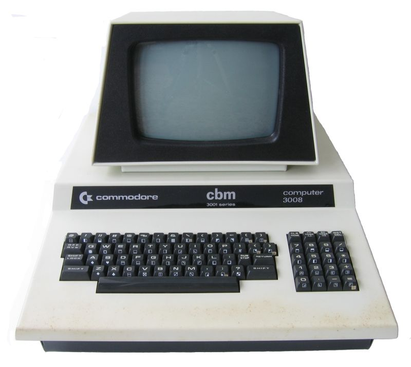 Commodore CBM 3008